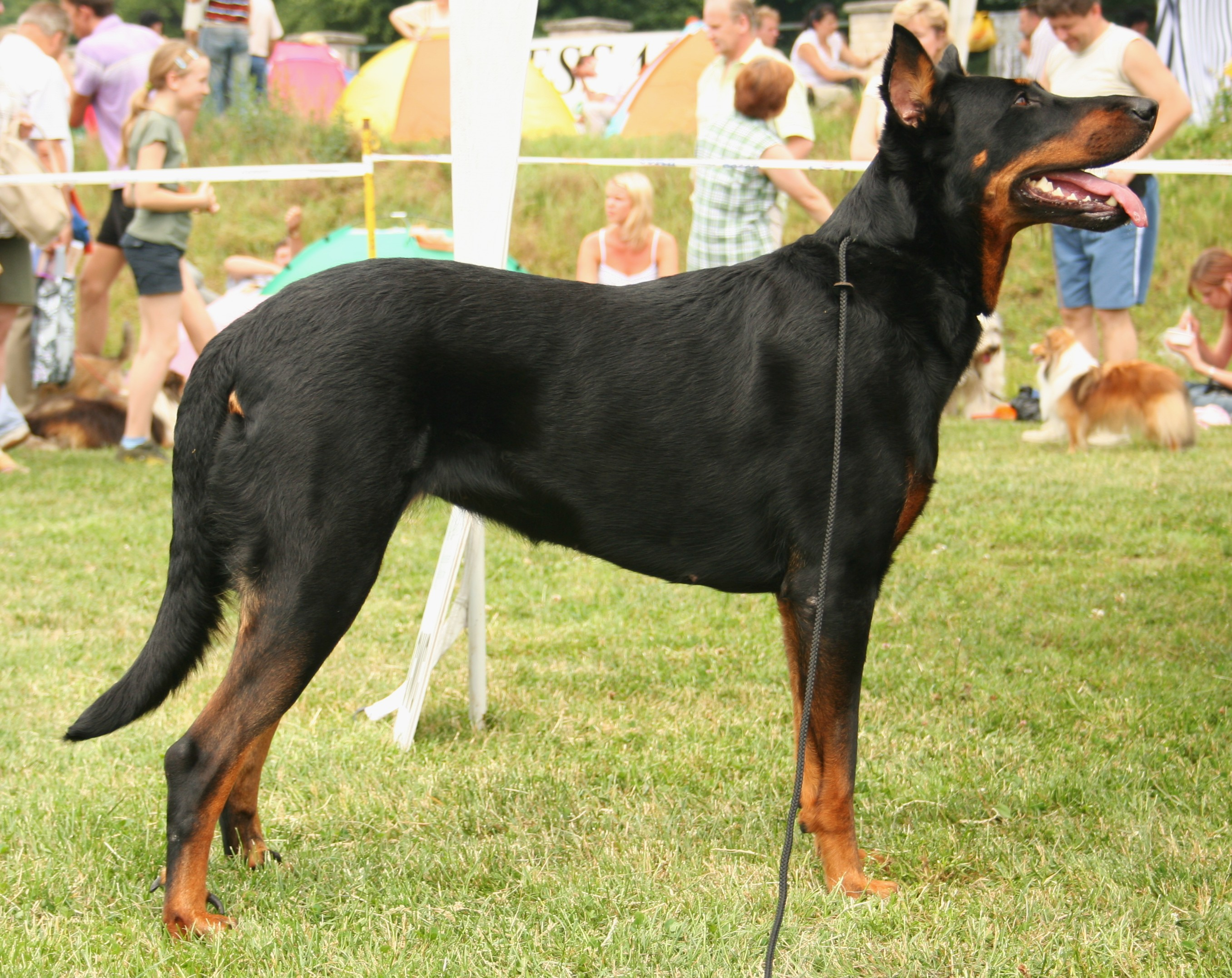 Beauceron during dog's show in Racibórz, Poland